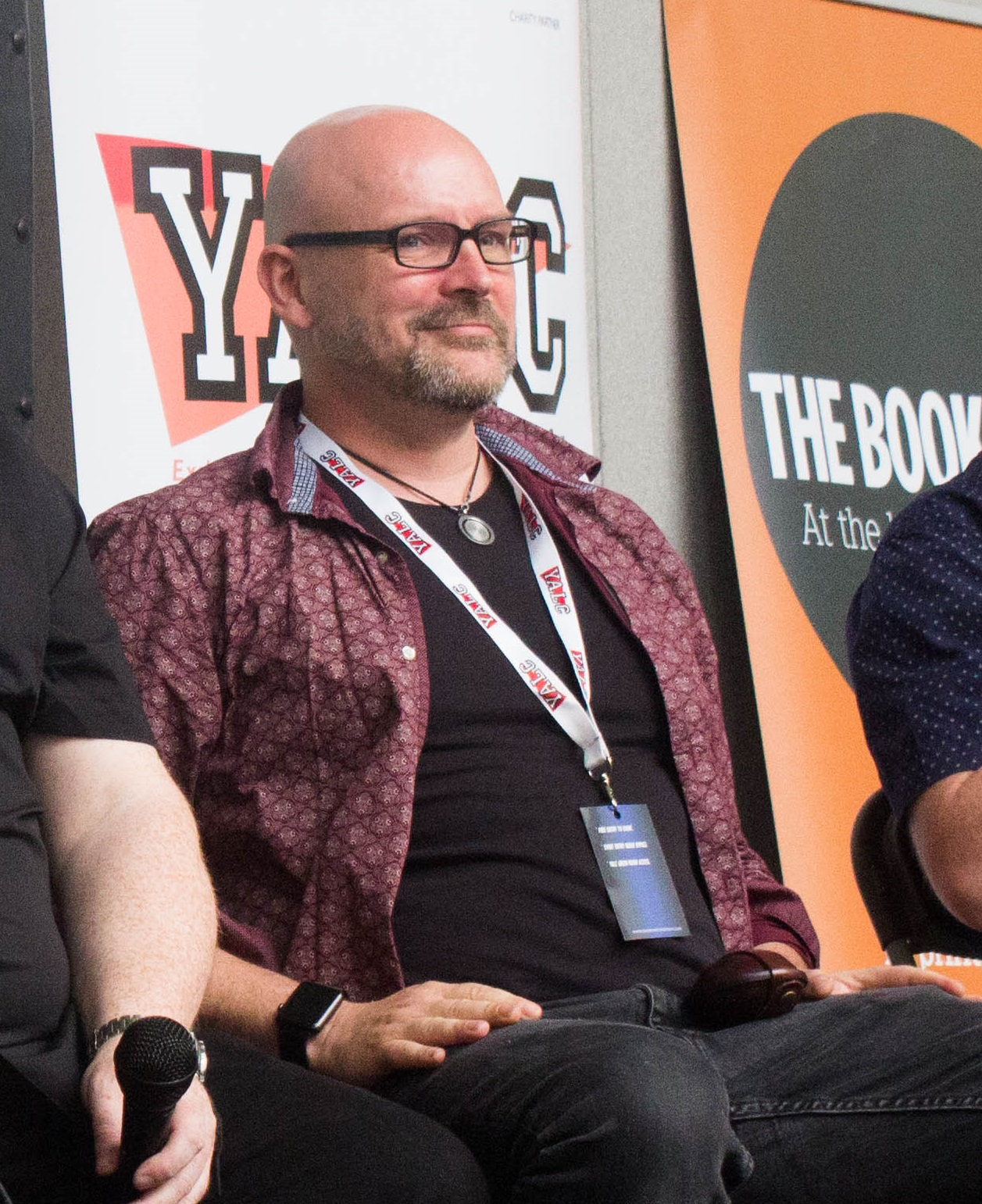 Alex Scarrow cropped from another photo